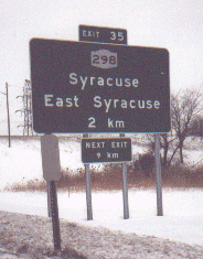 I took this picture myself in the late 1990s. This sign has since been replaced. Another all metric sign for Exit 36 existed as well. It was replaced at the same time.